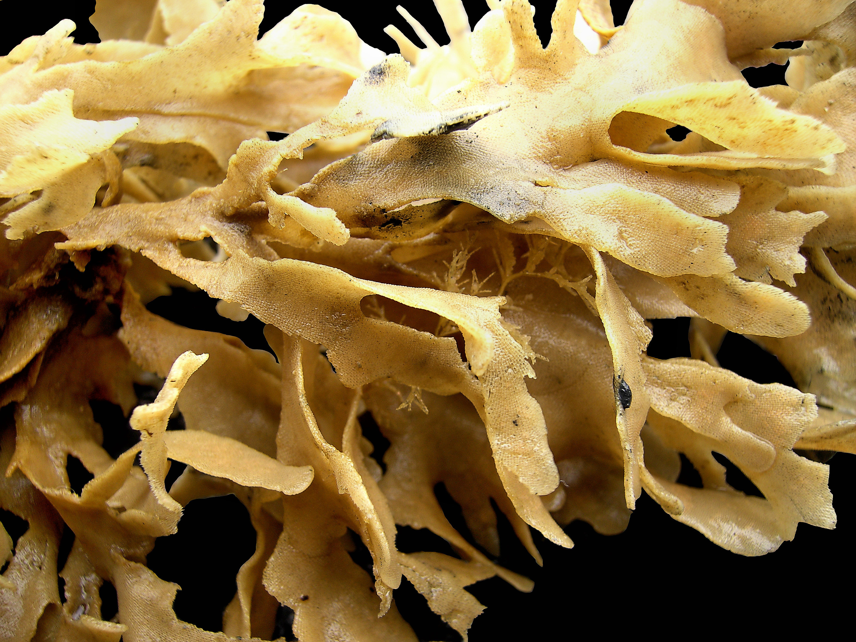 Hornwrack from the Belgian coastal waters.Image taken on board in the wet lab.